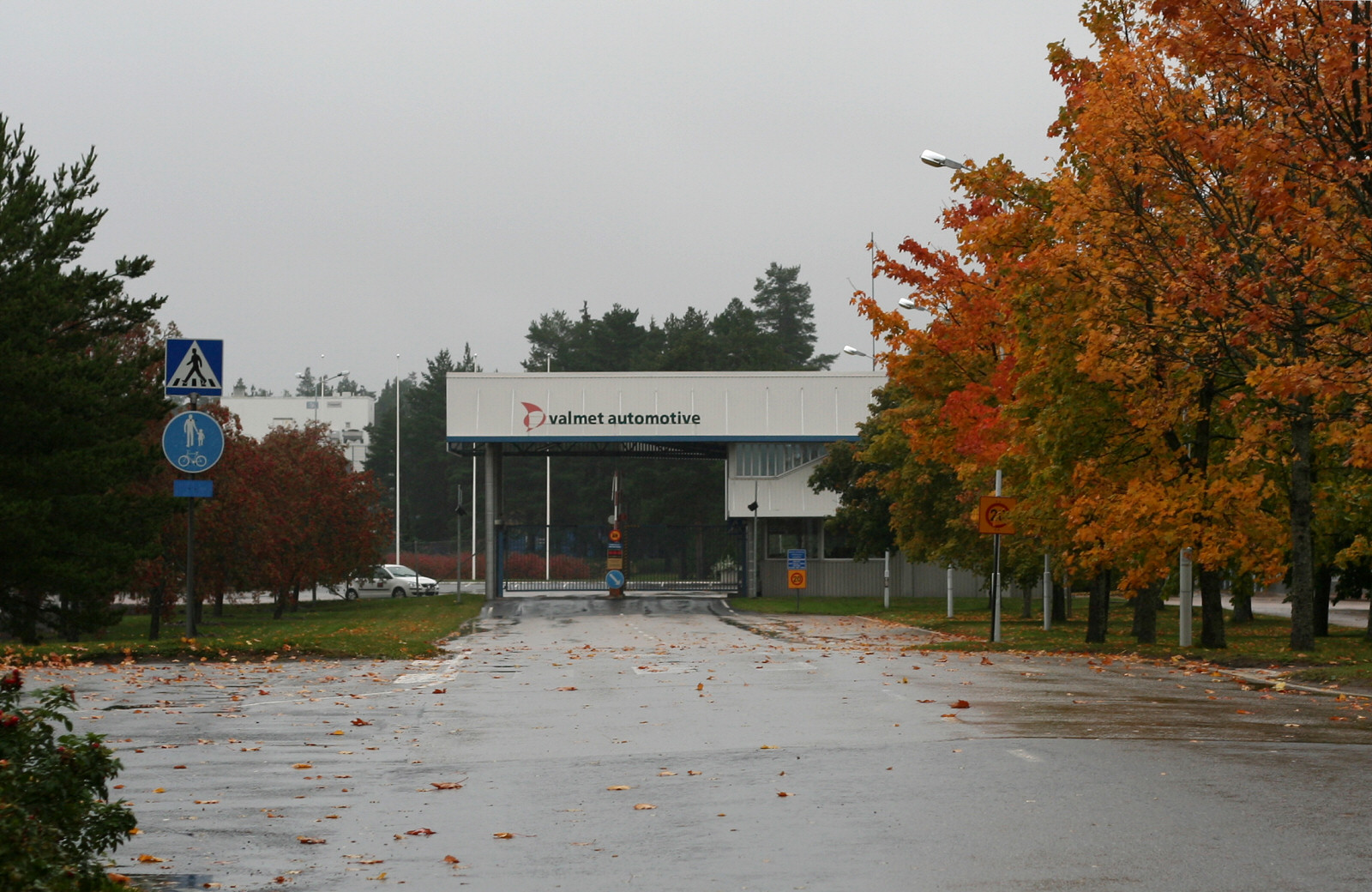 Gate to the Valmet Automotive factory.